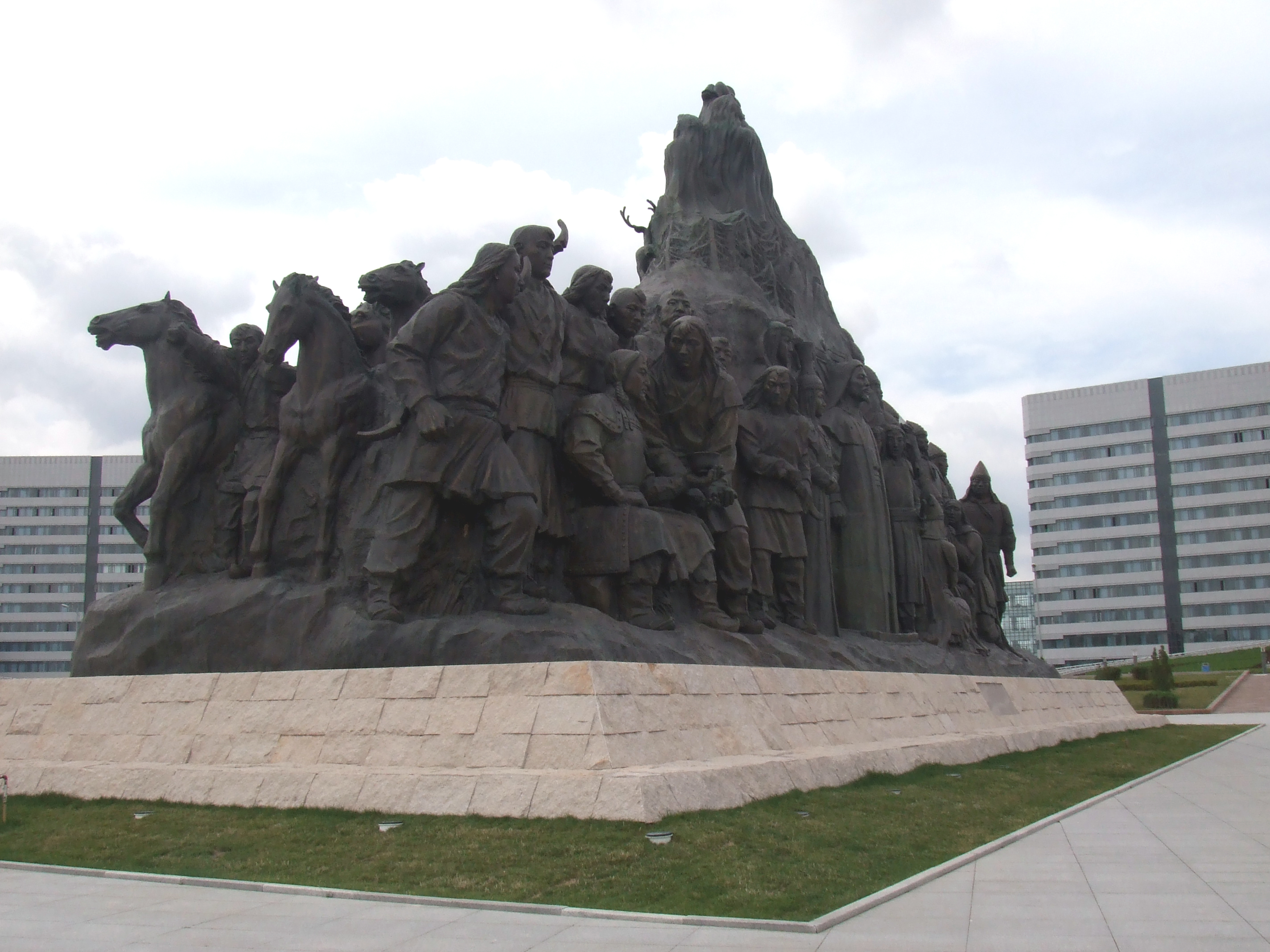 The sculpture in Ordos, Inner Mogolia, China